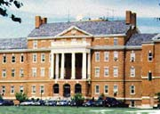 Batavia VA Medical Center, Batavia, New York, September 2009